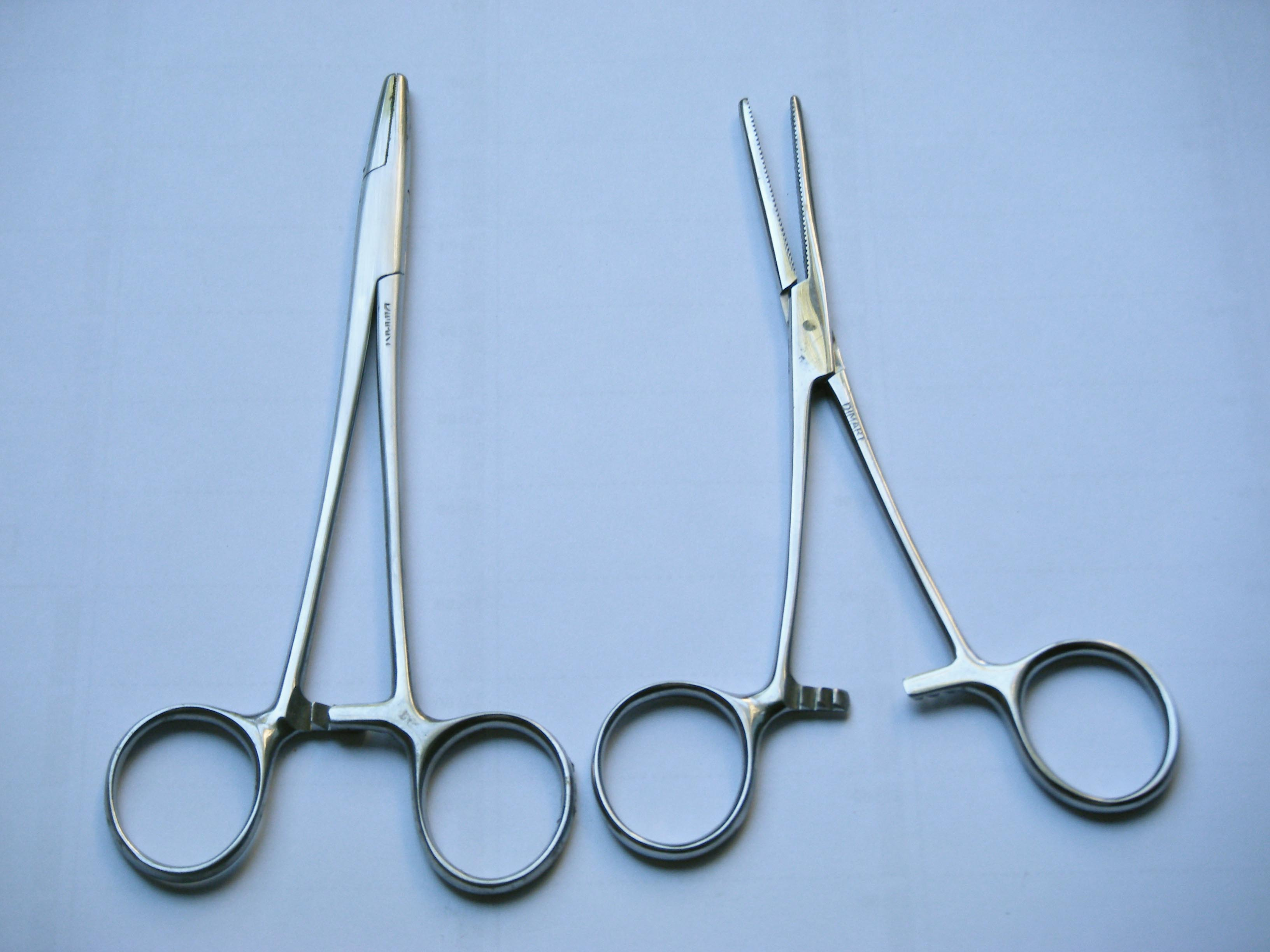 Surgical tools: a needle holder (left) and a hemostat, straight type (right)